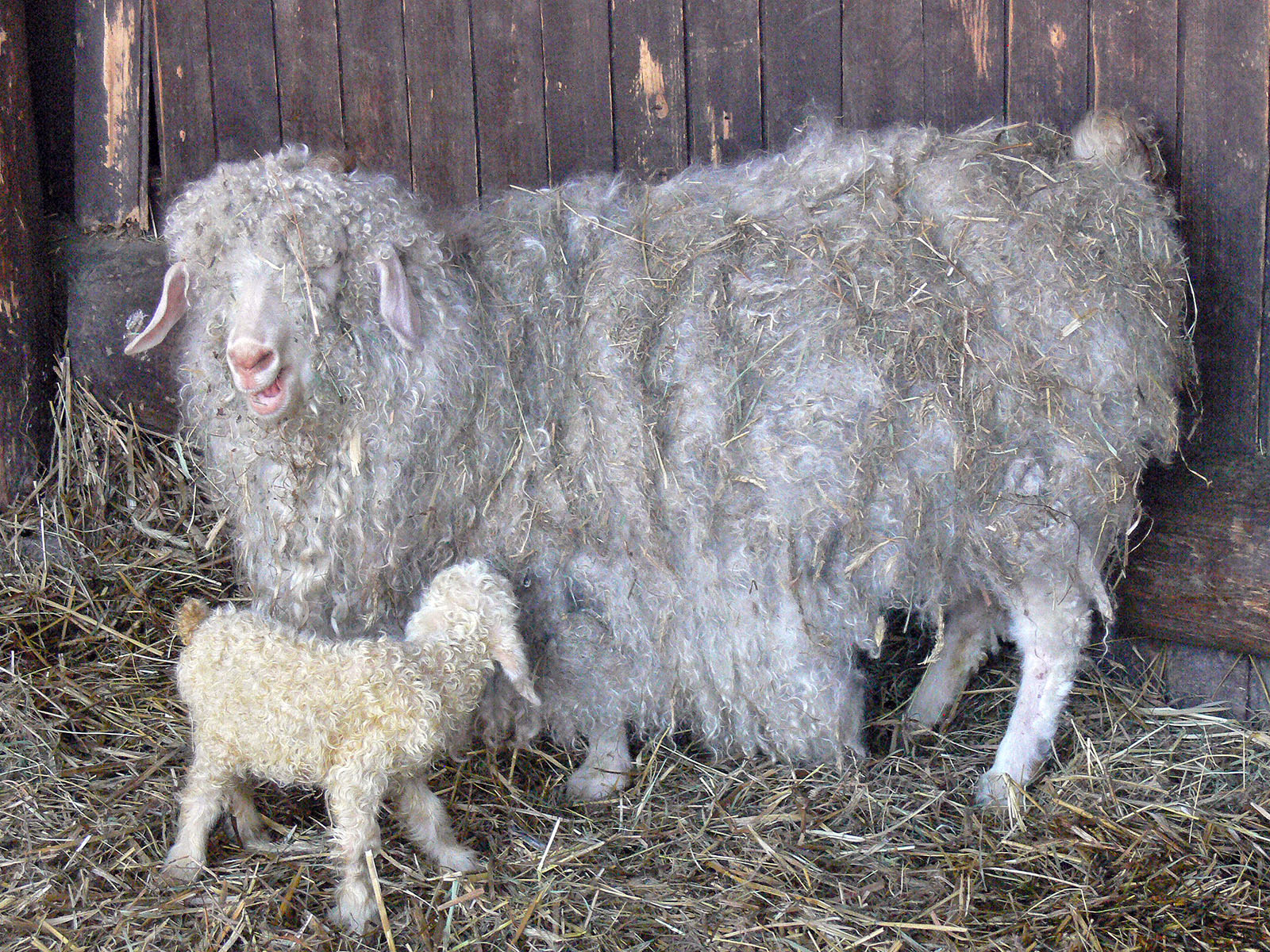 Angora goat with young.